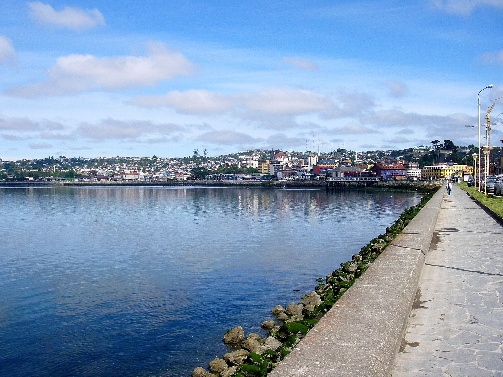 A view from the costanera to the Chilean city Puerto Montt